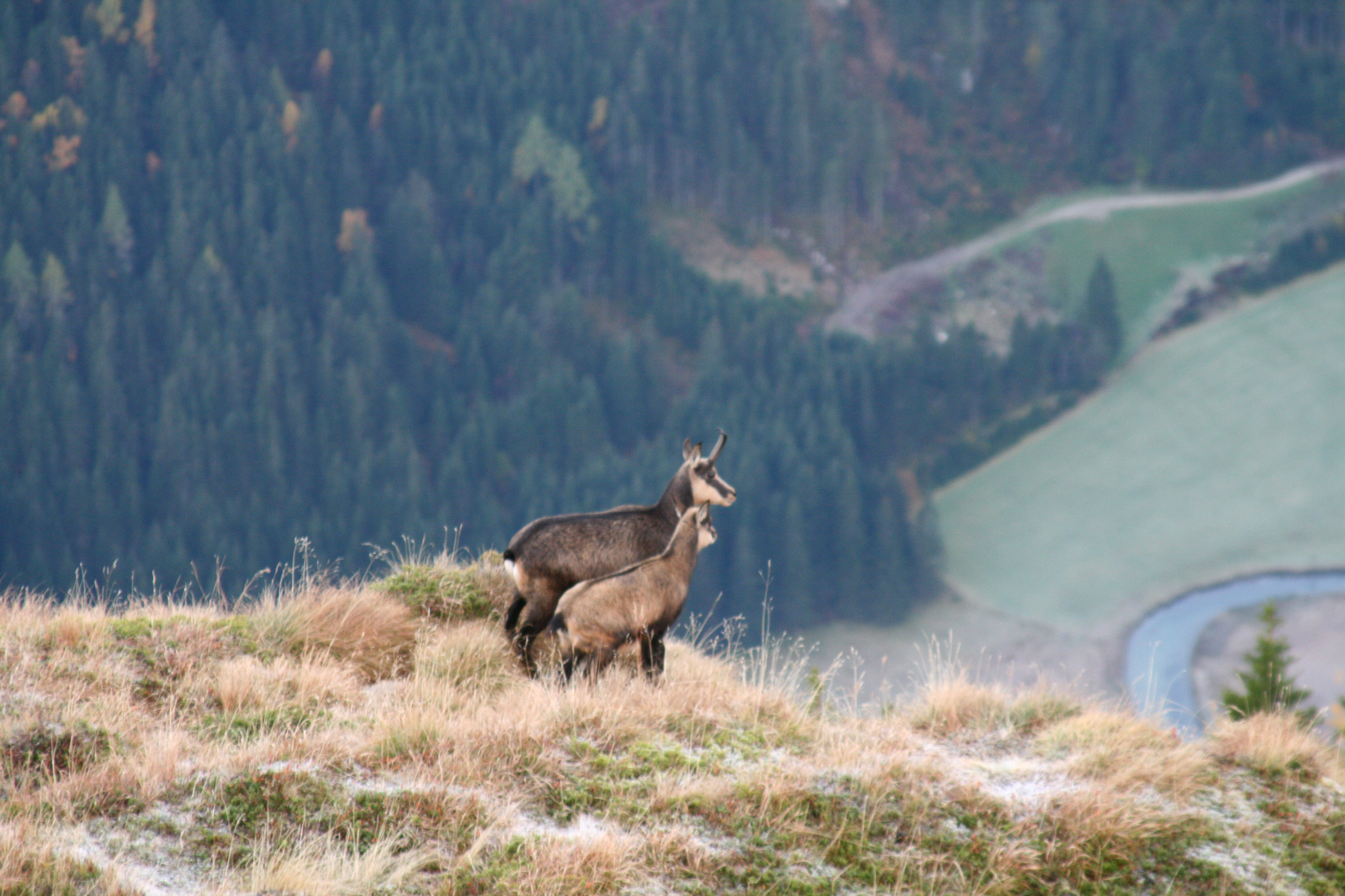 chamois, Schladminger Tauern, Austria, Styria